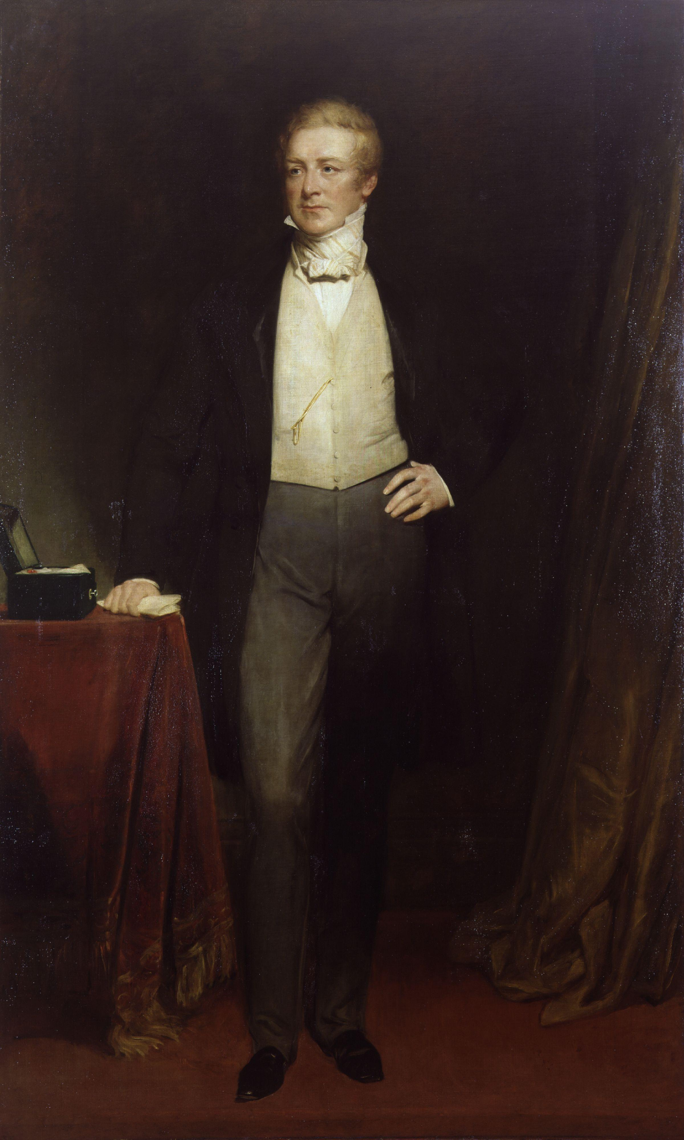 Sir Robert Peel, 2nd Bt, by Henry William Pickersgill (died 1875), given to the National Portrait Gallery, London in 1951. All images in this batch have been confirmed as author died before 1939 according to the official death date listed by the NPG.